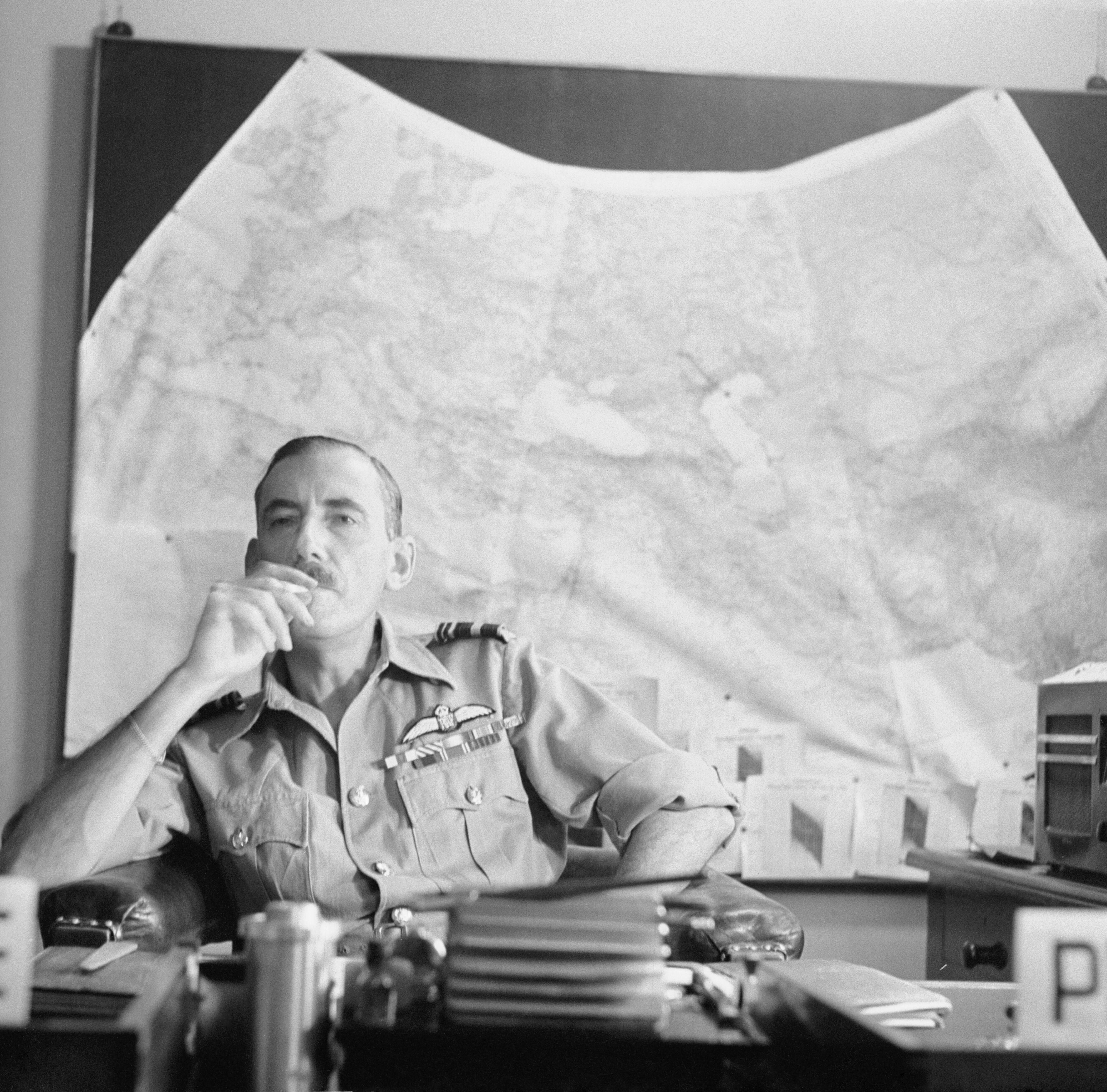 Cecil Beaton Photographs- Political and Military Personalities Military Personalities: Air Vice Marshal Hugh Champion de Crespigny, Commander of the Royal Air Force in Iraq and Iran, at his desk.